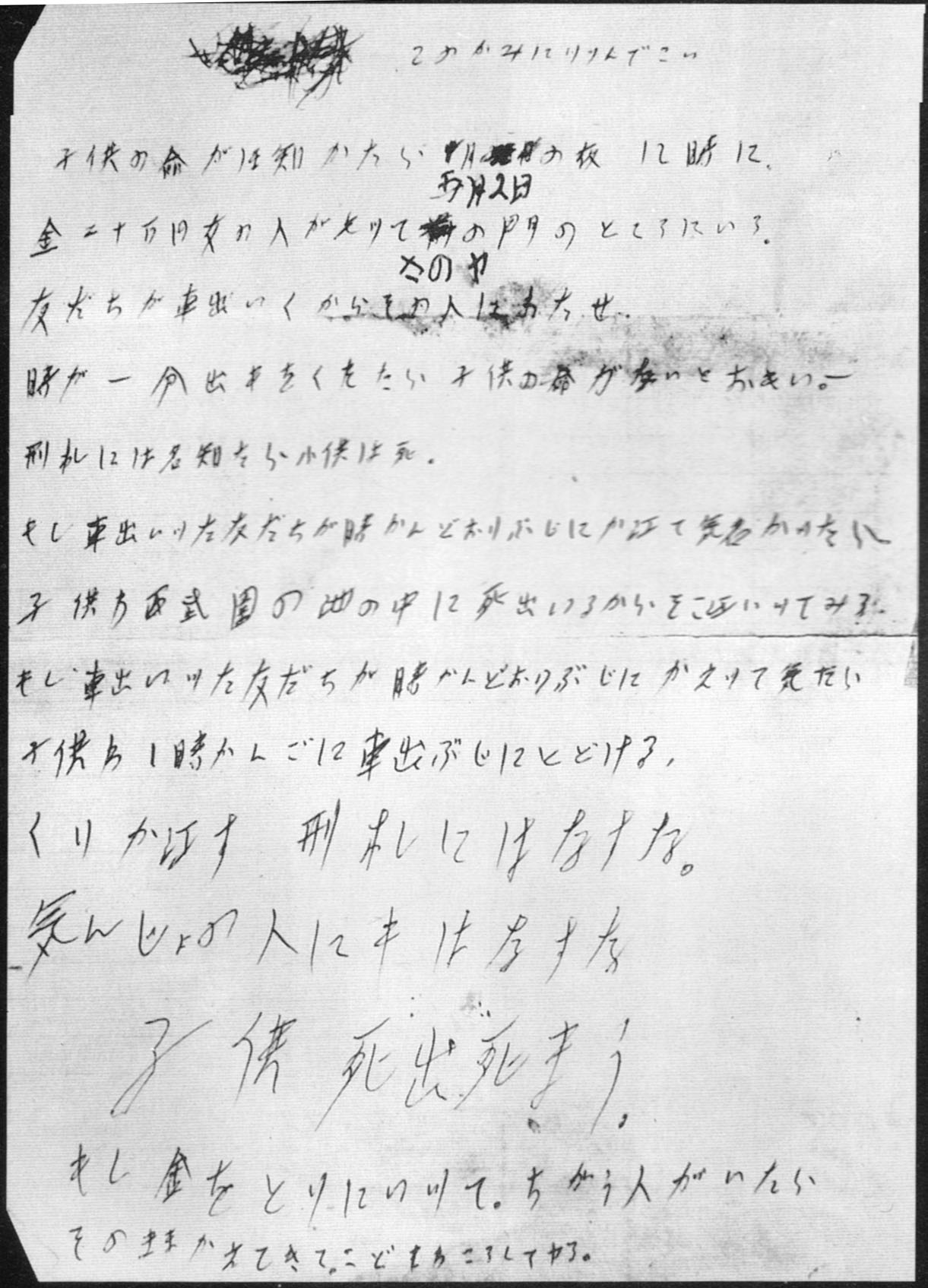 The threatening letter that was sent by the offender of the Sayama incident, 1963.